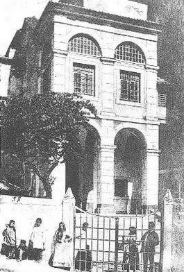 Picture of Cadeia do Limoeiro